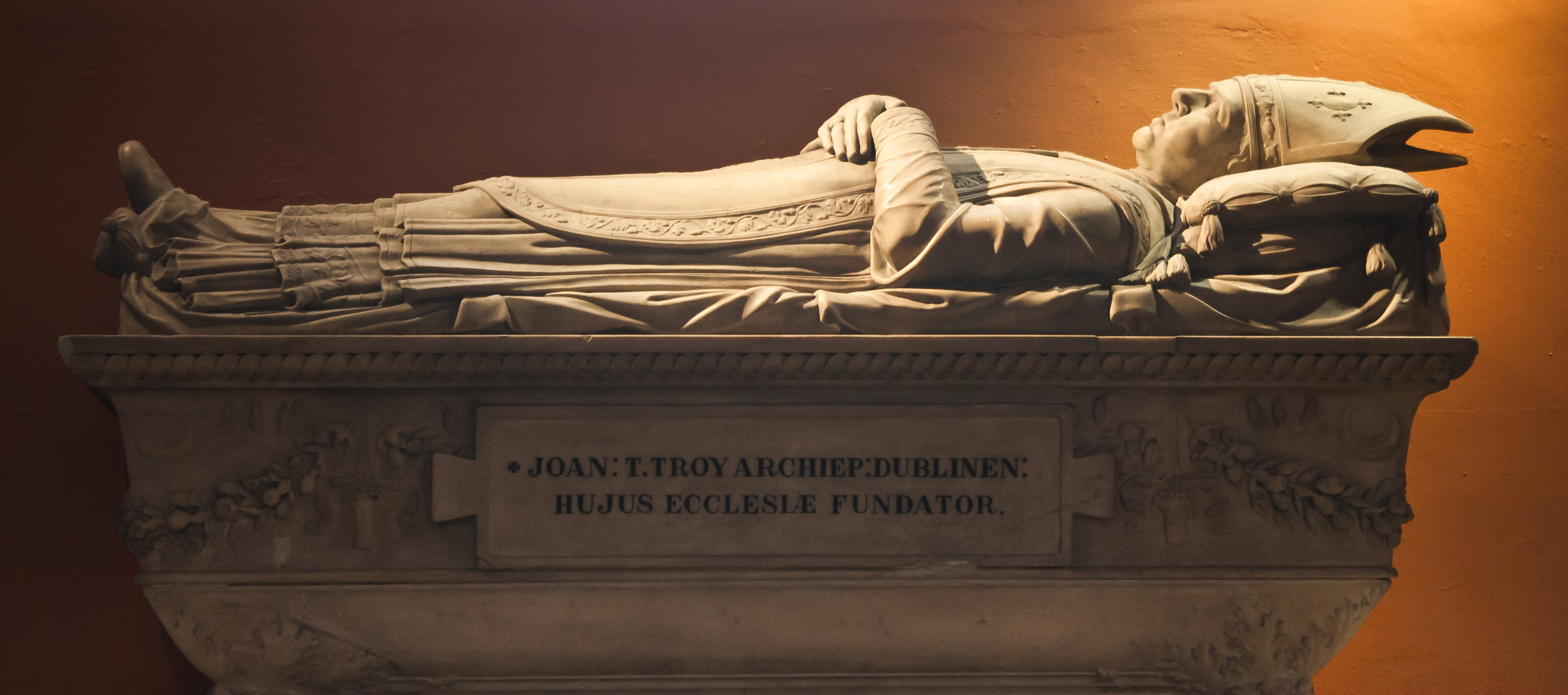 Monument in the north aisle dedicated to Archbishop John Thomas Troy, sculpted in 1823 by Peter Turnerelli.